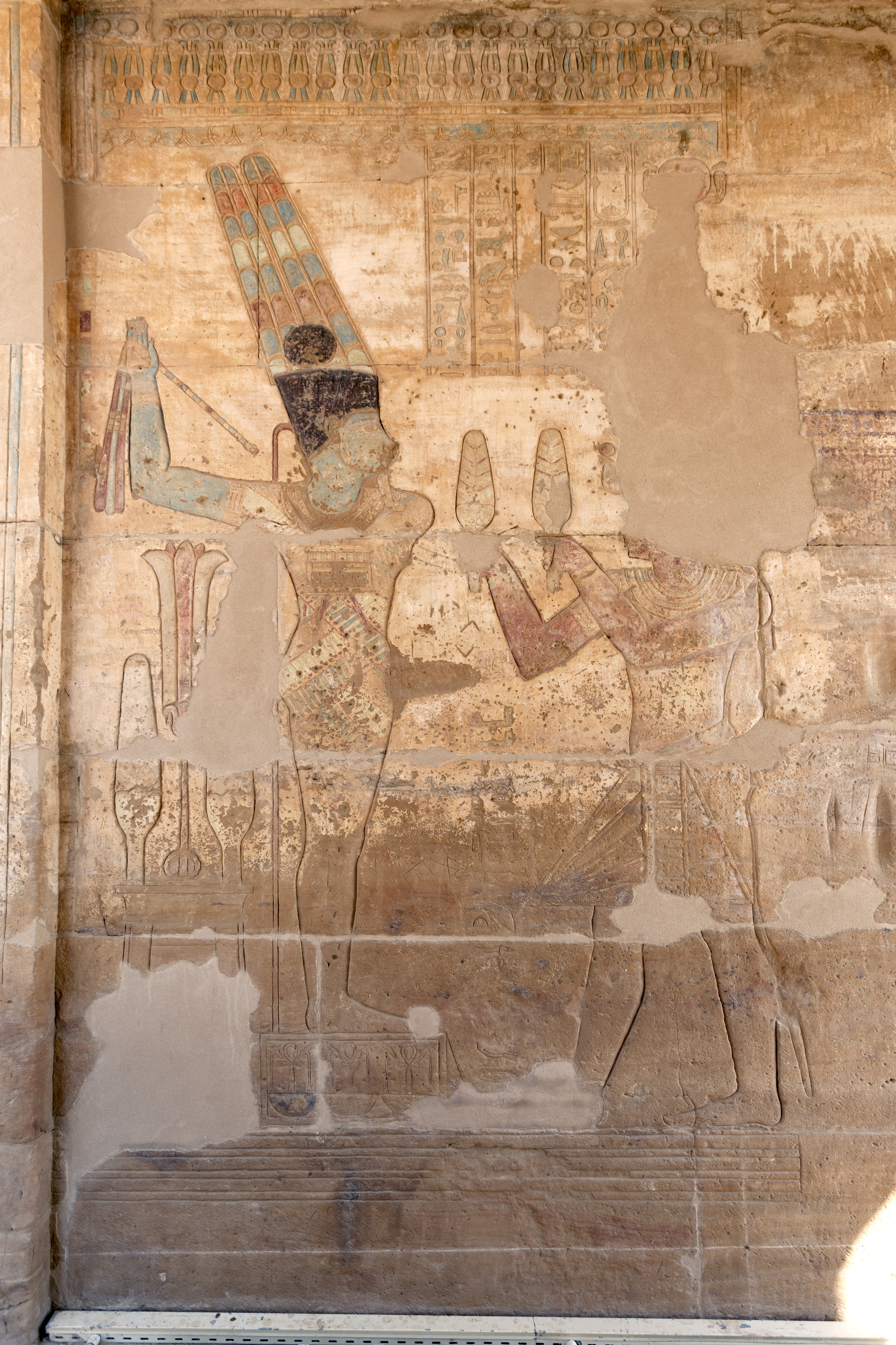 Relief showing Darius the Great offering lettuces the Amun-Ra Kamutef, Temple of Hibis, inner (3rd) gateway, right/north side, el-Kharga depression, Libyan desert, Egypt